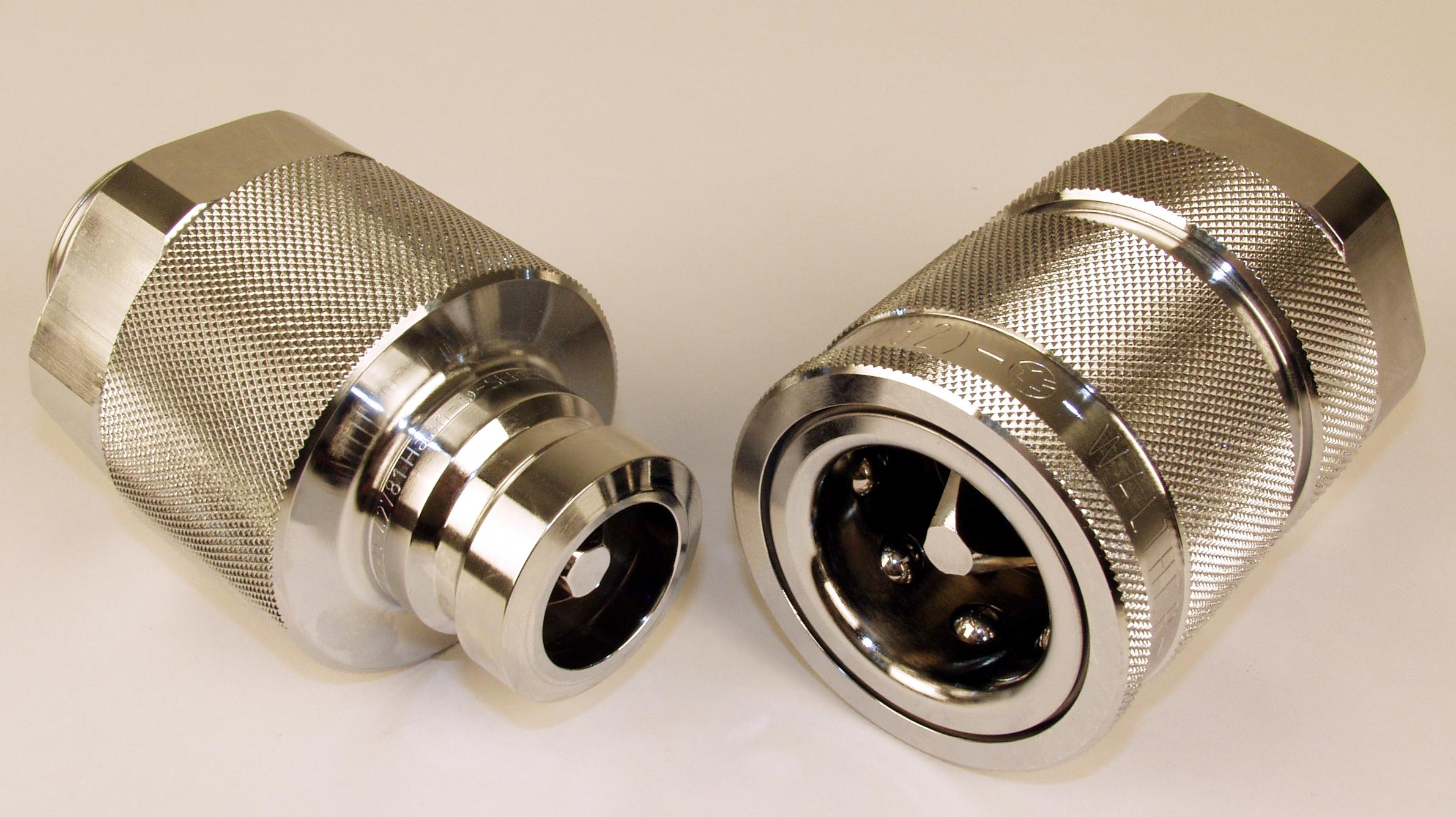 For low pressure applications up to 100 bar / media: water, compressed air, fuel, lubricants / areas of application: all sectors of industry